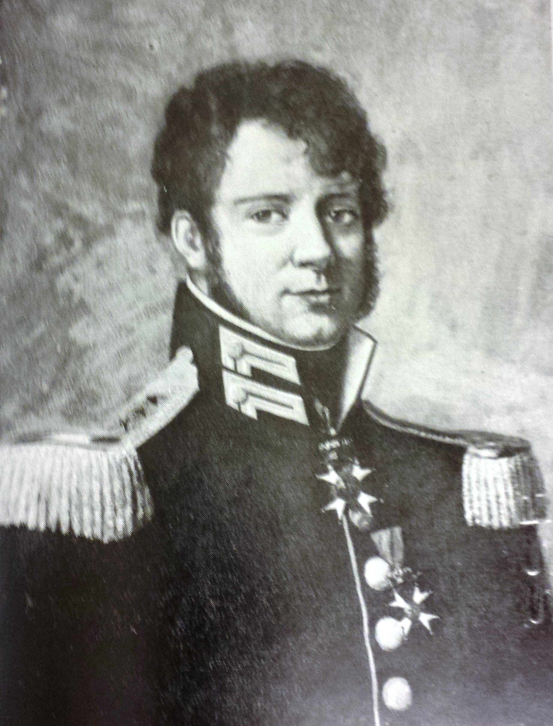 Carl Eric Skjöldebrand, 1780-1817, Swedish count and colonel